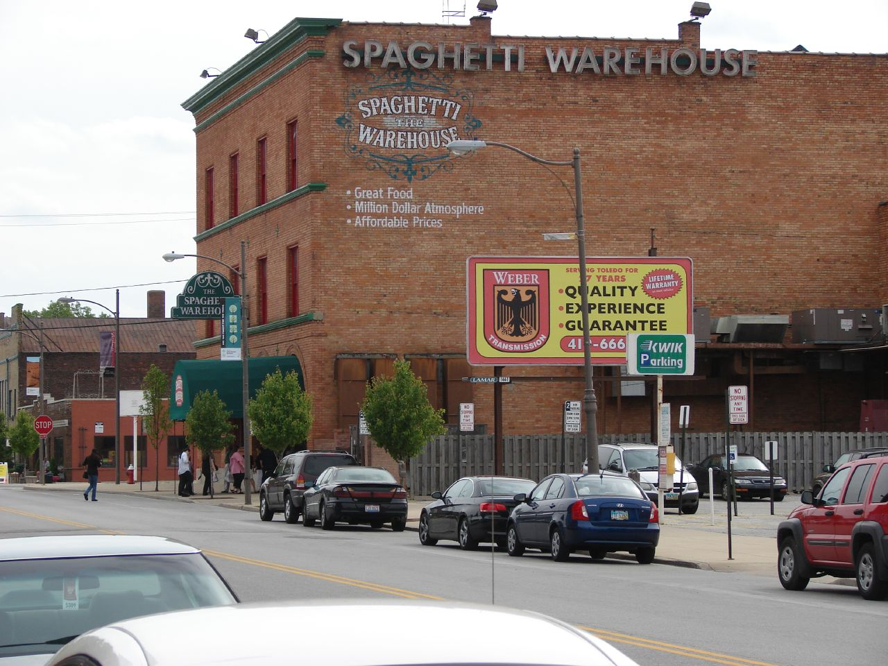 Out to the ‘ole ballgame on a Saturday night.